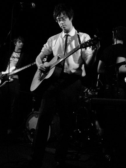 Will Sheff Photo taken by Jessica at Cafe Du Nord in San Francisco, CA on October 23rd, 2005